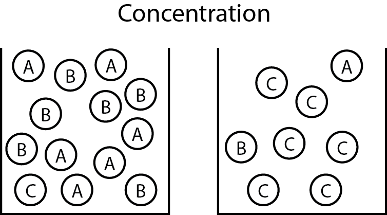 In the early stages of the reaction it is not difficult for reactants to find each other. As the reaction proceeds the product begins to dilute the reactants. This will slow the reaction as the concentration continues to drop. In order to keep the reaction rate up a separation process that removes the product may be employed.